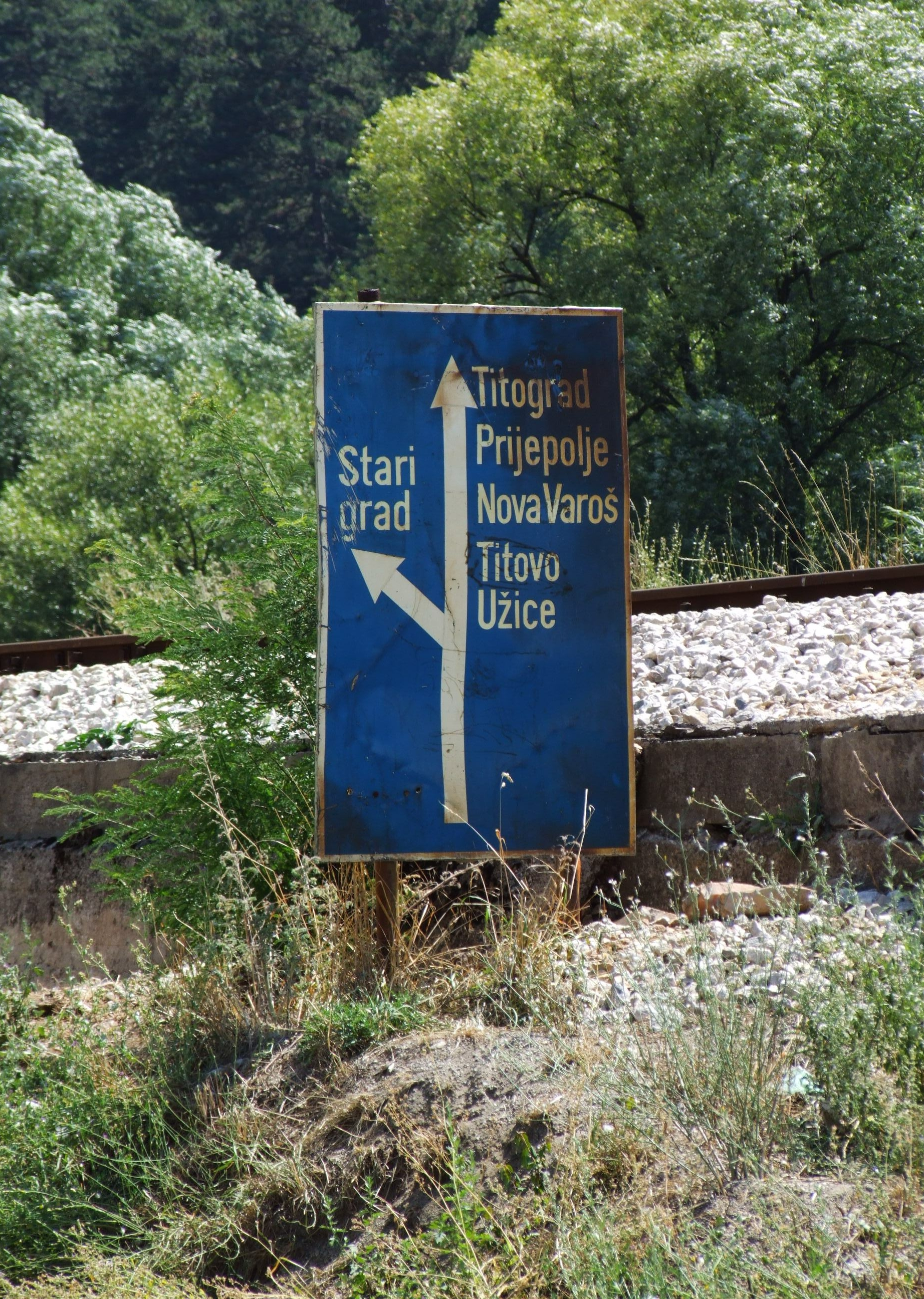 Road sign in Serbia - to "Titograd" (from 1992 Podgorica) and "Titovo Užice" (from 1992 Užice)